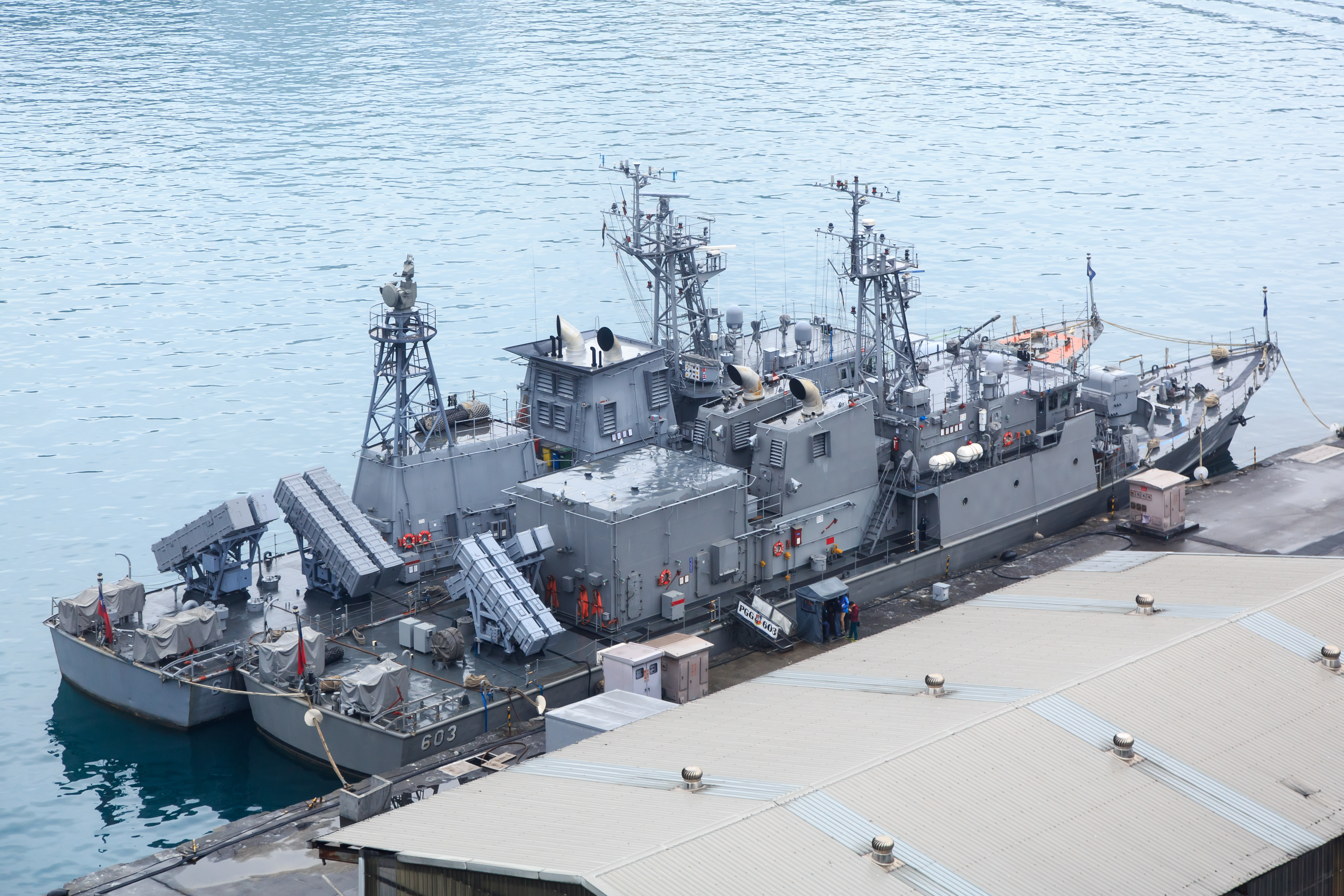 Keelung, Taiwan: Two Patrol Ships of the Ching Chiang Class, namely the ROCN Ching Chiang (錦江艦) (PGG-603) and another, not identified patrol ship, both mooring in Port of Keelung.